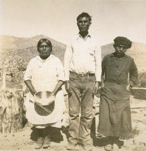 A Kawaiisu family — vintage sepia photograph of the Kawaiisu Native Americans of California. The pre-20th century Kawaiisu tribe lived in the Tehachapi Mountains and Southern Sierra Nevada, and traveled eastward on food-gathering trips to the northern Mojave Desert and the western edge of Death Valley. Today, some Kawaiisu people are enrolled in the Tule River Indian Tribe of the Tule River Reservation, in Tulare County, California. Credits This image was pulled from the Antelope Valley Indian Museum [1], and is copyright California State Parks. Because Wikipedia does not have a copyright template for California State Park images, I'm forced to use the next higher level.